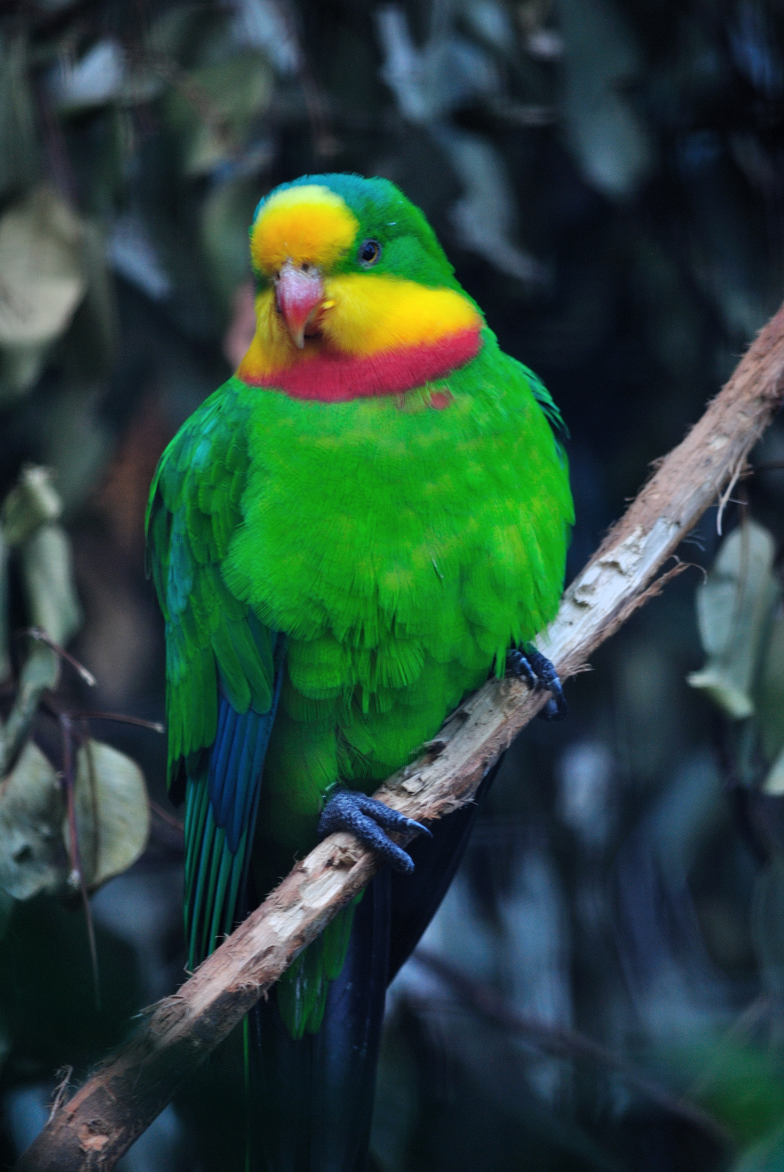 An adult male Superb Parrot (also known as Barraband's Parrot and Barraband's Parakeet) at Taronga Zoo, Sydney, Australia.